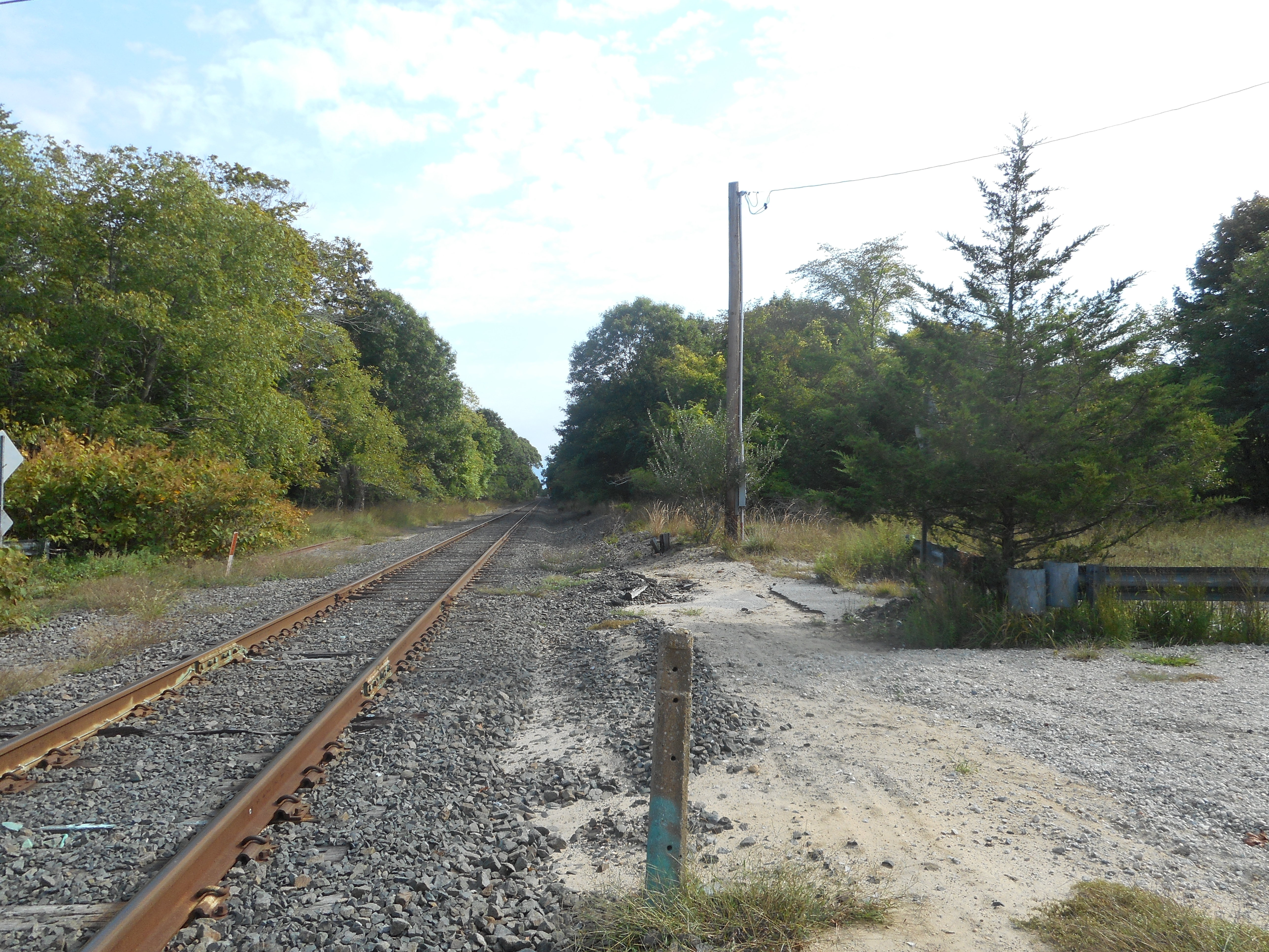 The site of the former Manorville (LIRR station) along the Main Line of the Long Island Rail Road in Manorville, New York.